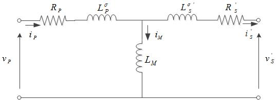 Transformer equivalent circuit with Heyland constants referred to the primary, without ideal transformer isolation, and with iM magnetizing current showing.